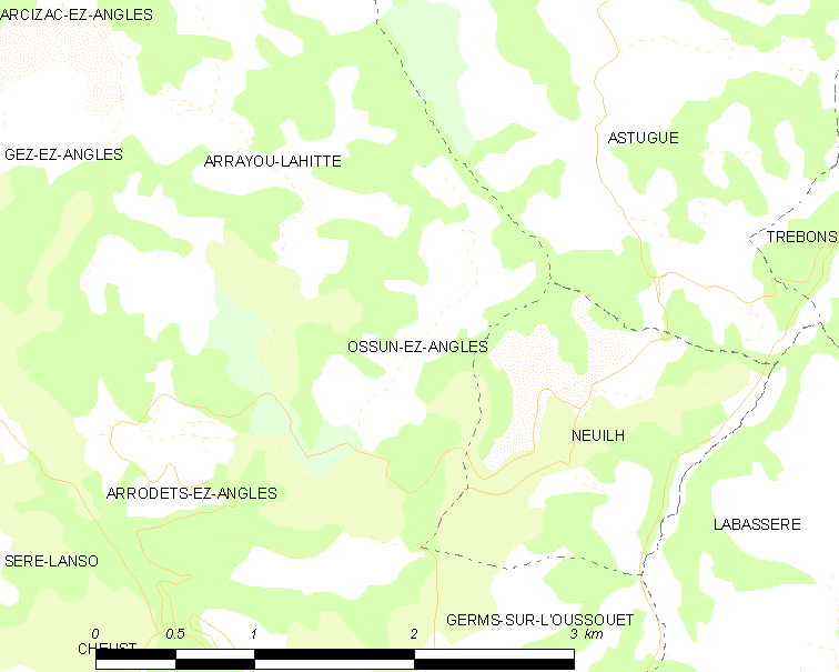 Map of French municipality